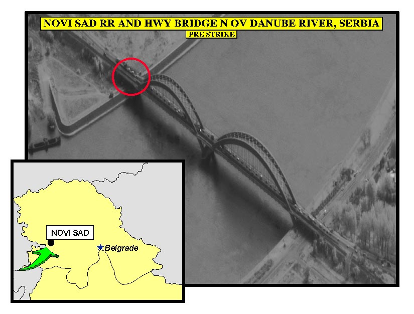 Novi Sad Railway bridge NATO strike assessment 19999